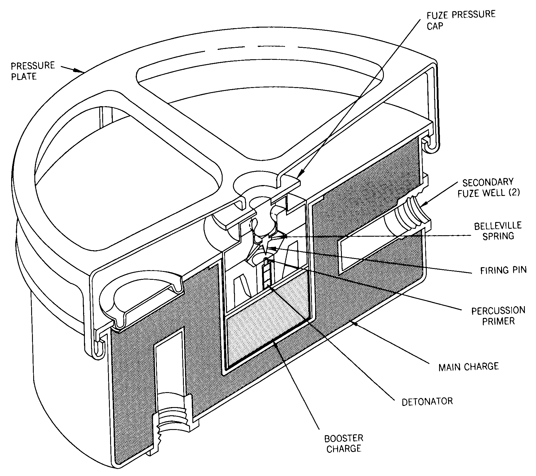 A cutaway of a US M1, M4 anti-tank mine dating from circa 1945, showing 2 additional fuze wells designed for use with booby-trap firing devices.